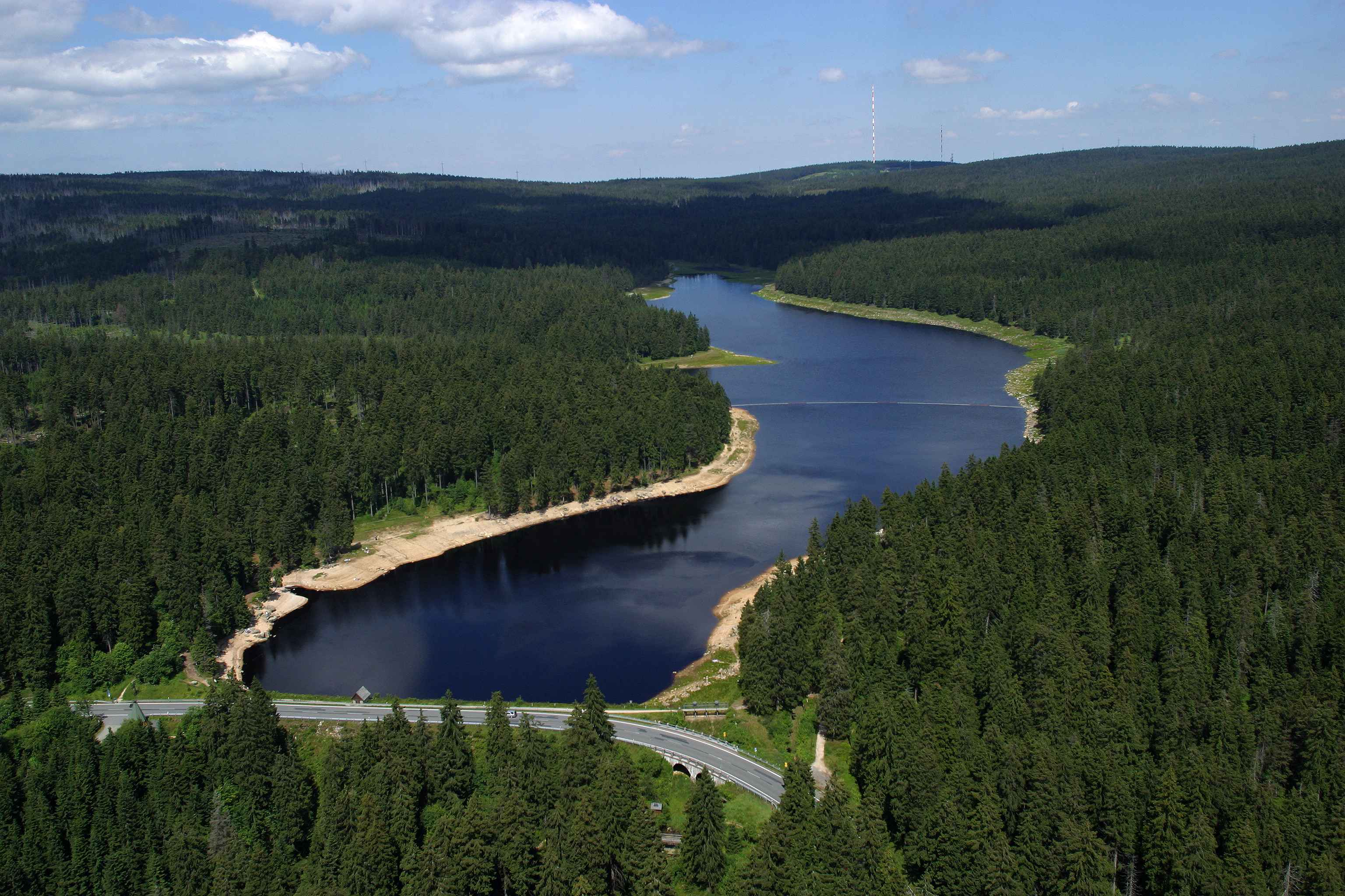 Aerial photograph of the Oderteich from the south. The dam structure is below the federal highway in the foreground. Harz mountains, Lower Saxony, Germany